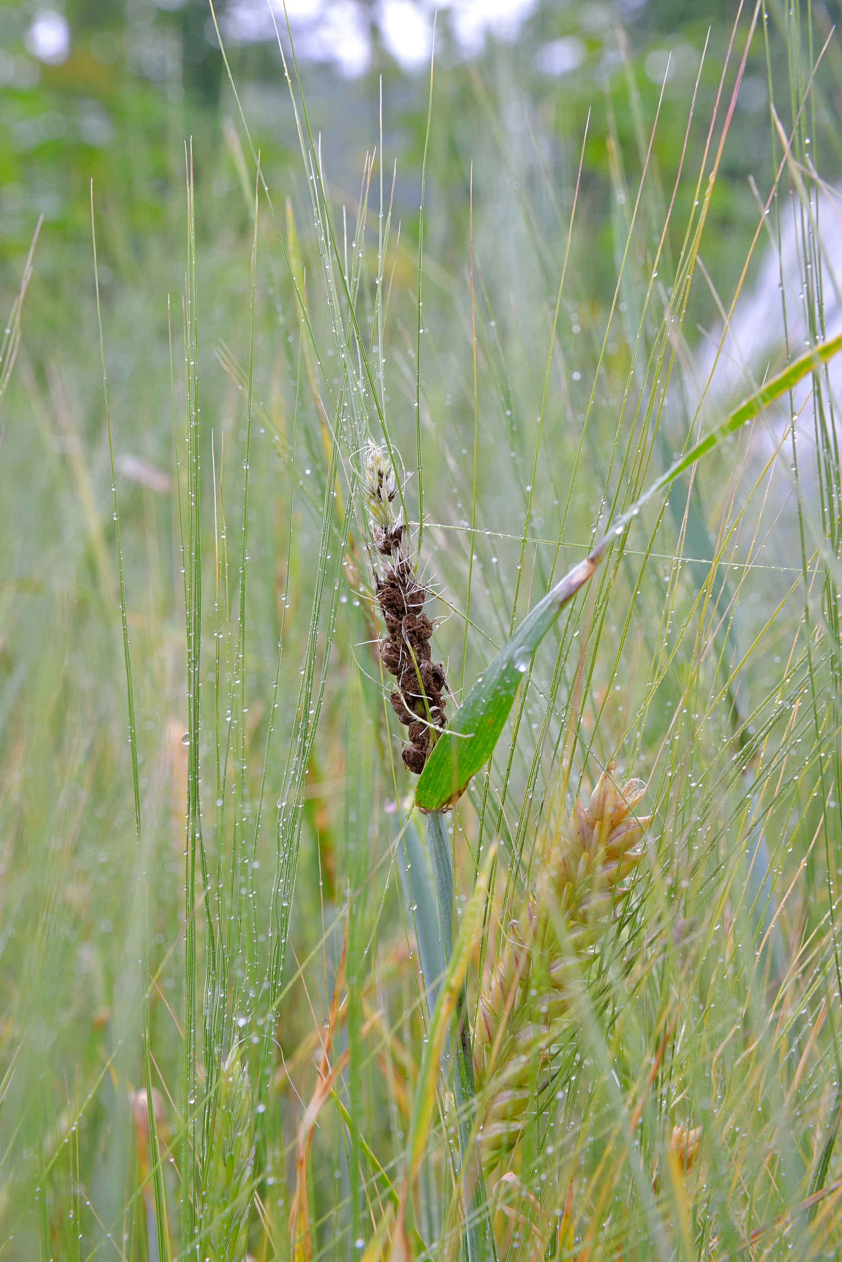 Ustilago nuda at winterbarley